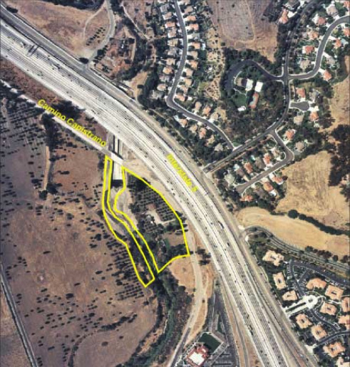 Where Trabuco Creek meets Interstate 5, with yellow marks indicating areas needing restoration